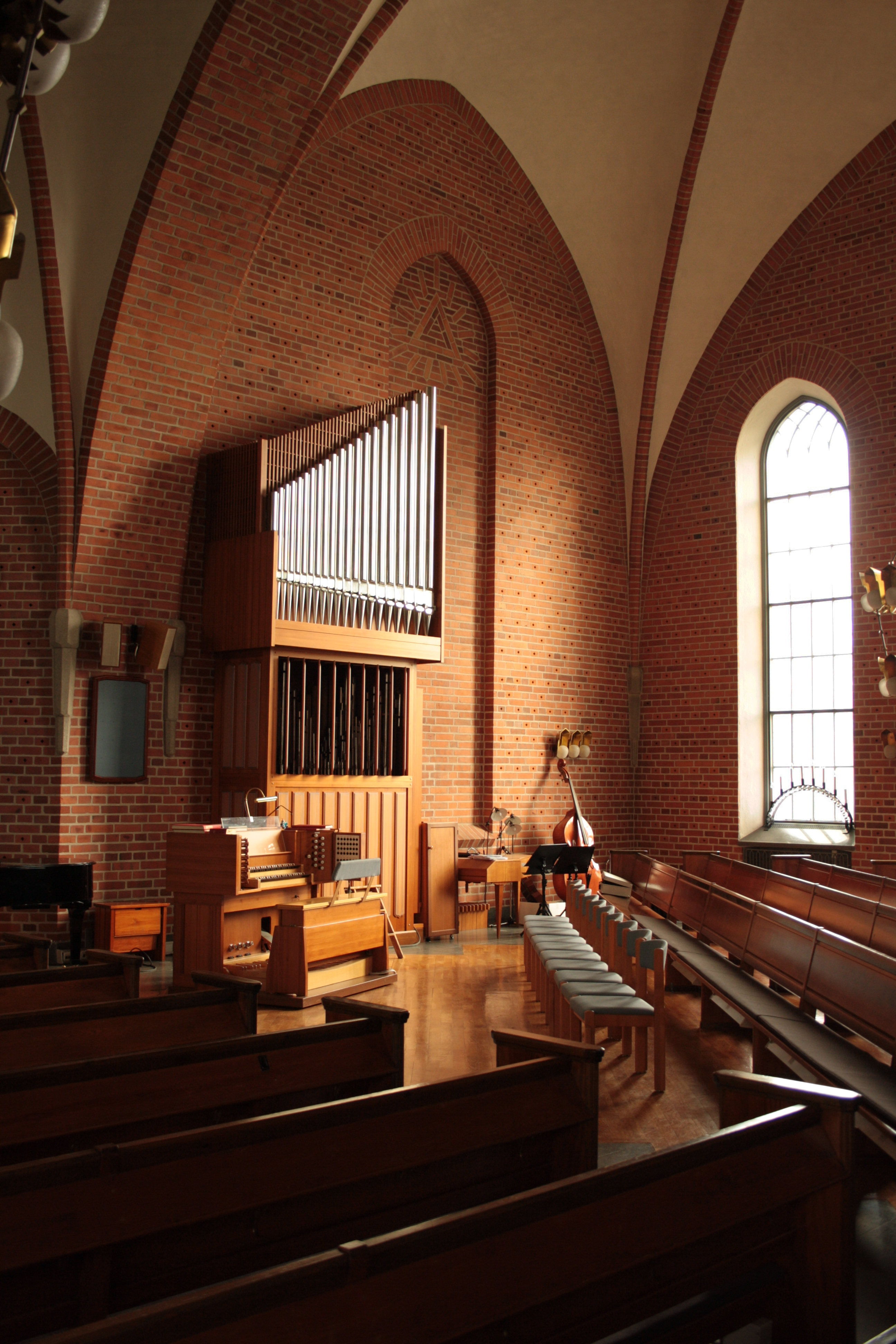 Burträsk church, Sweden. Pipe organ.